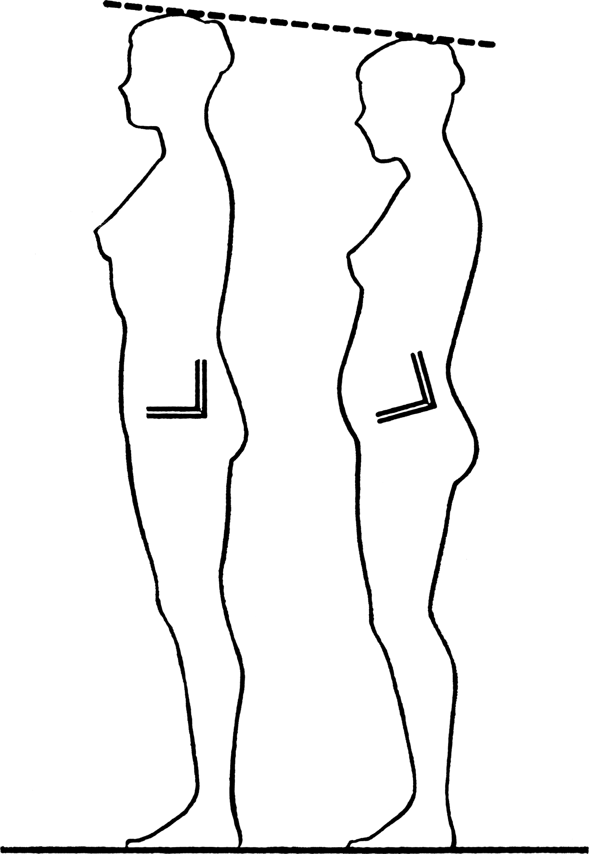 1. A tilted pelvis thrusts stomach forward and hips out. Good posture can add inches to your height.